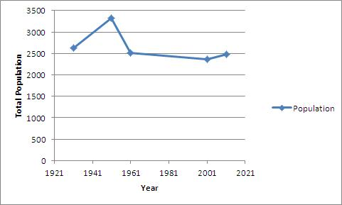 Changing total population for the civil parish of Ellesmere Rural in Shropshire, as reported by the Census of Population between 1931 and 2011.